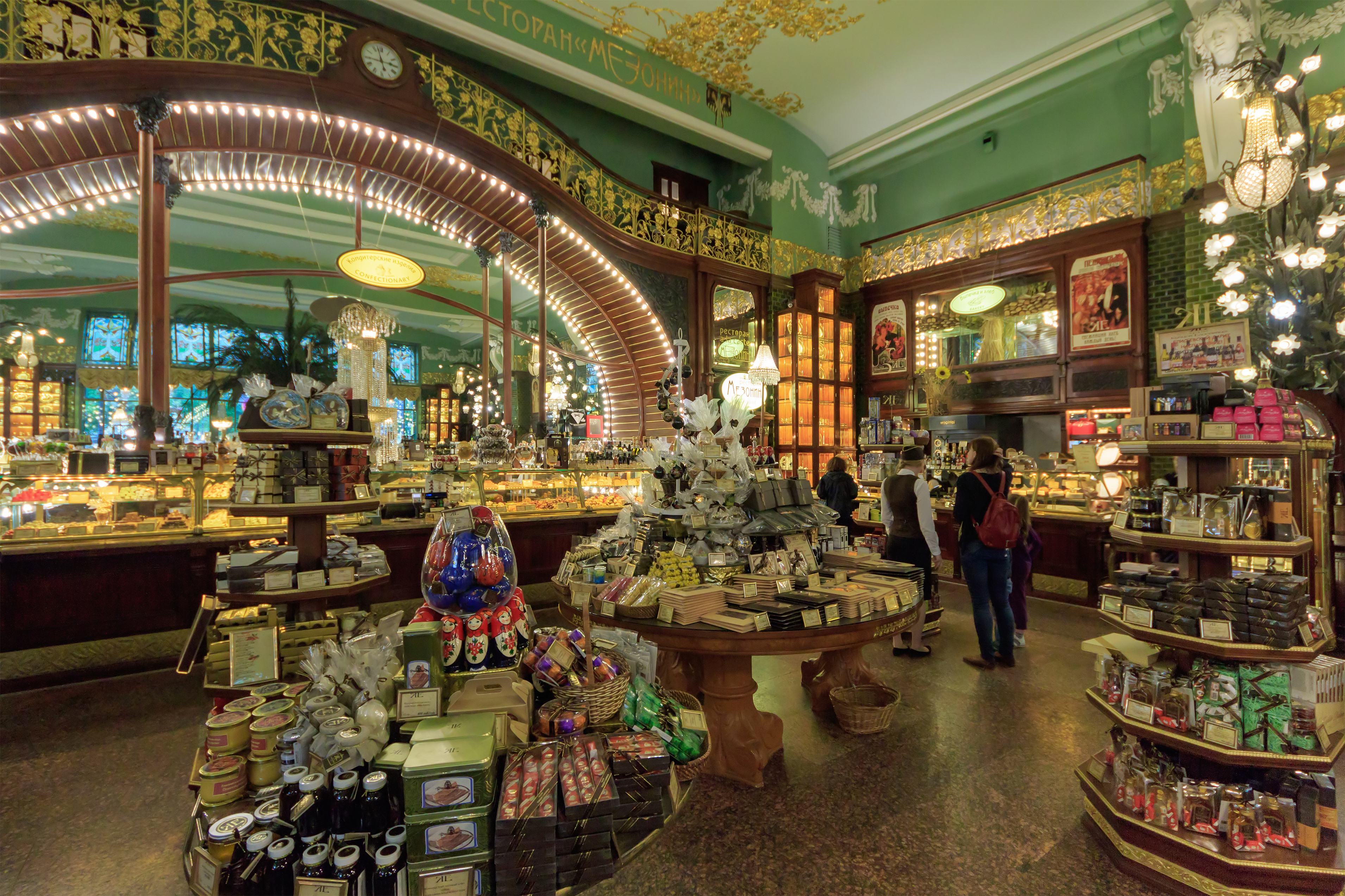 Interior of the Eliseevsky Shop in Saint Petersburg (Russia).